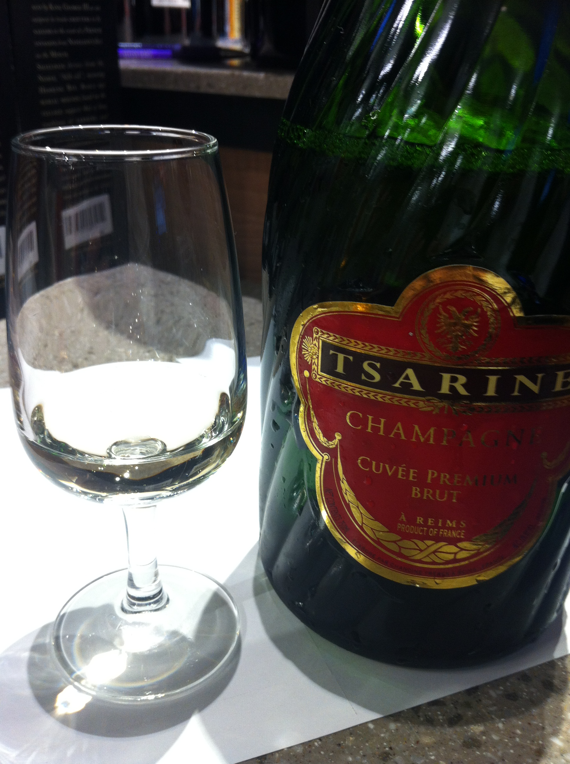 French Champagne from a second label of Chanoine Freres